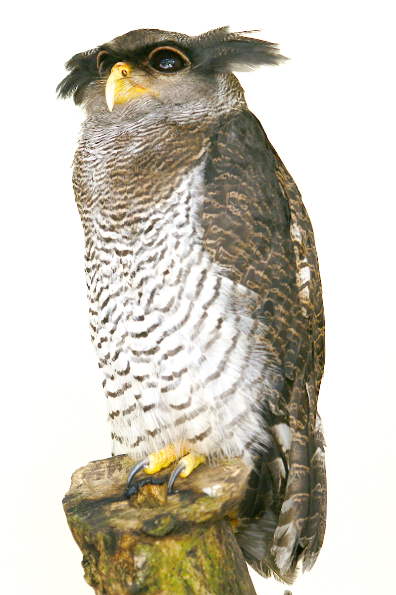 Barred Eagle-owl at Kuala Kumpur Bird Park, Malaysia.